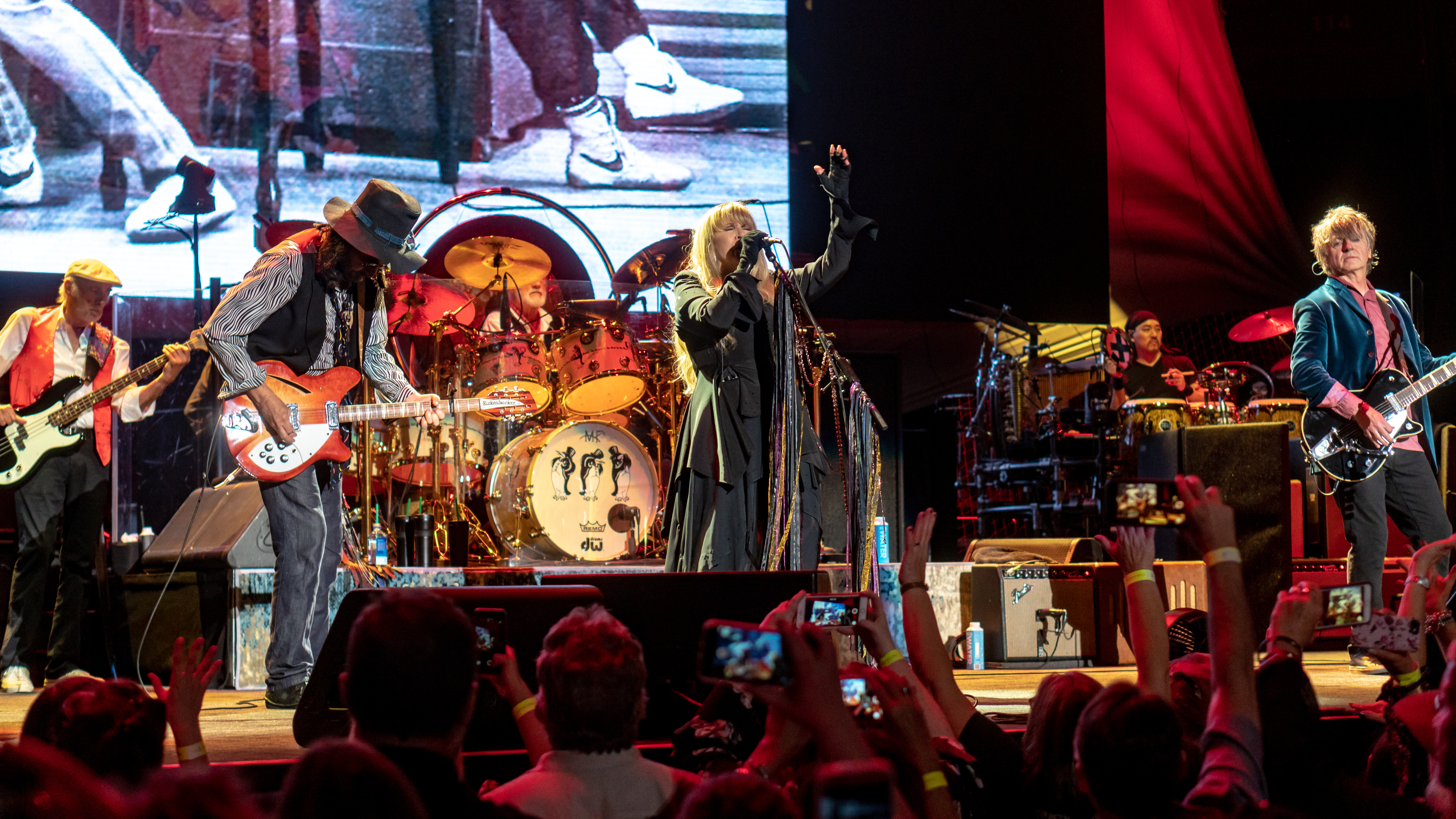 Fleetwood Mac - BOK Center Tulsa - Wednesday 3rd October 2018